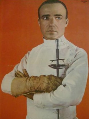 Roberto Larraz. Olympic Fencing. Argentina, 1936.